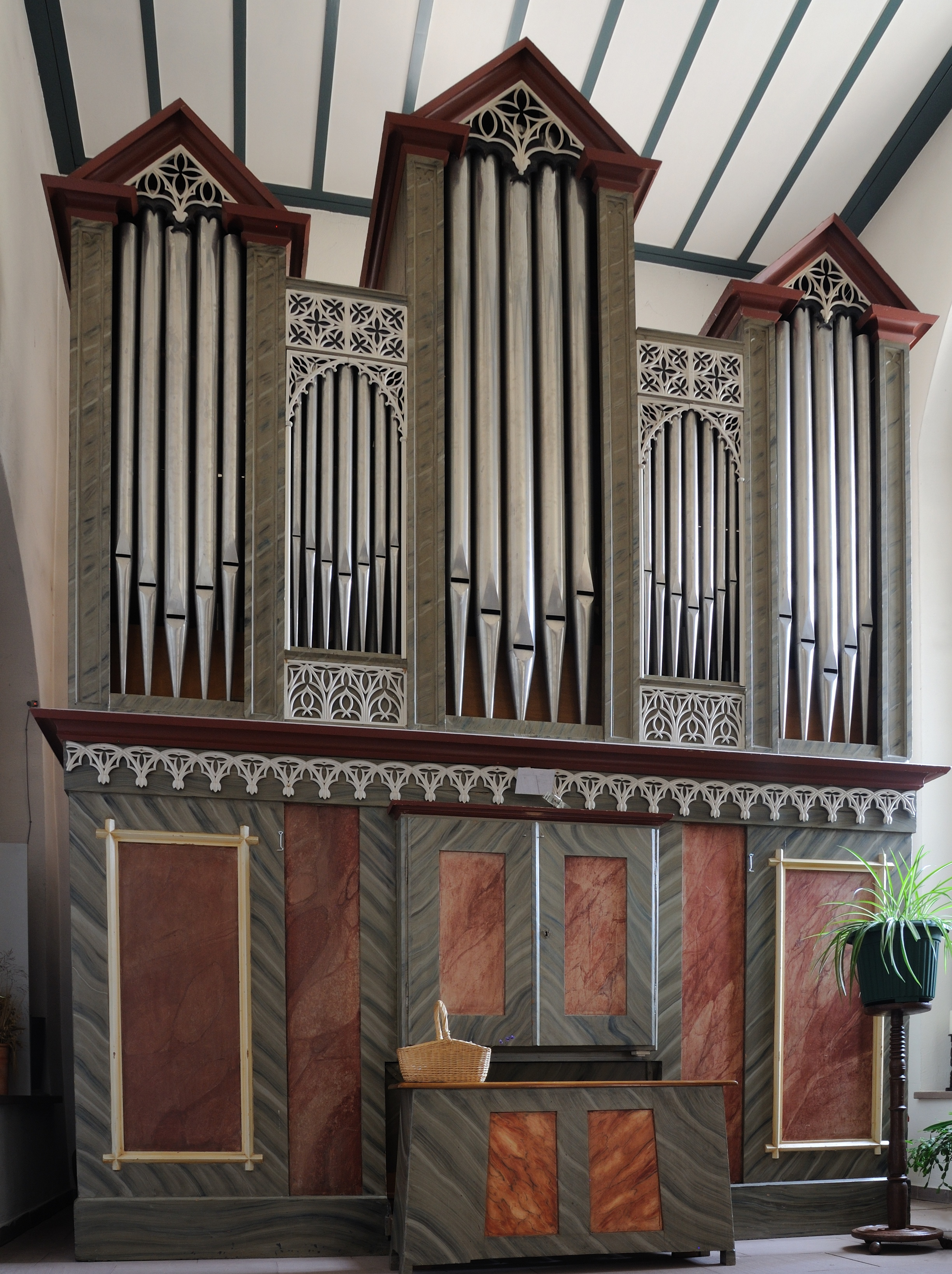 Obereggenen: Protestant Church